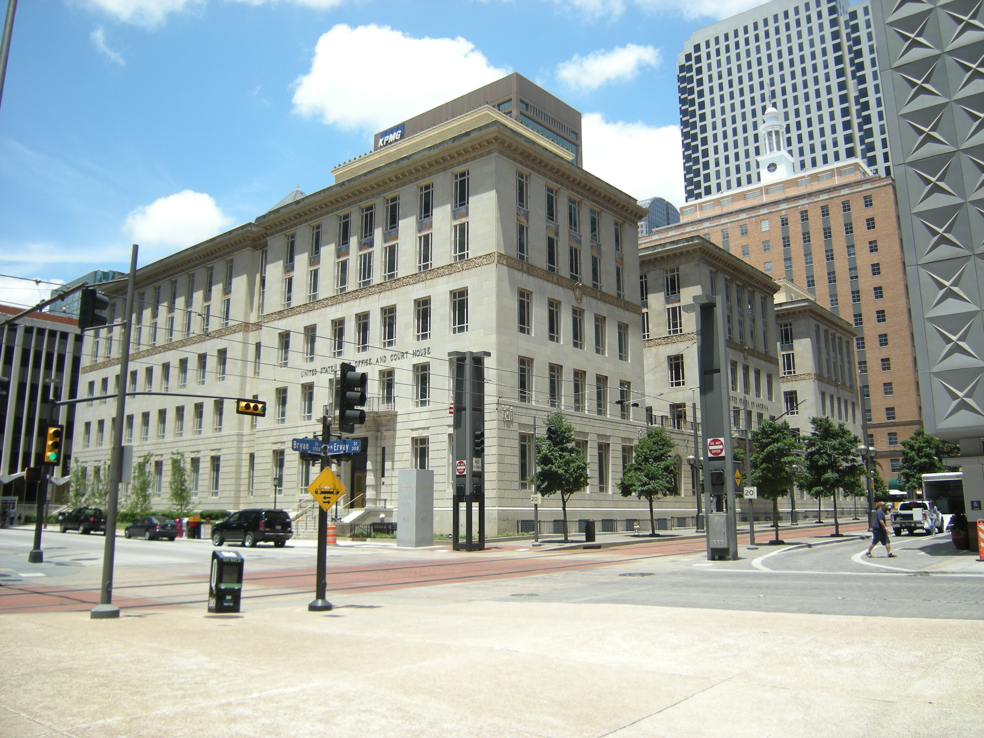 Old Post Office & Court House, downtown Dallas, Texas.